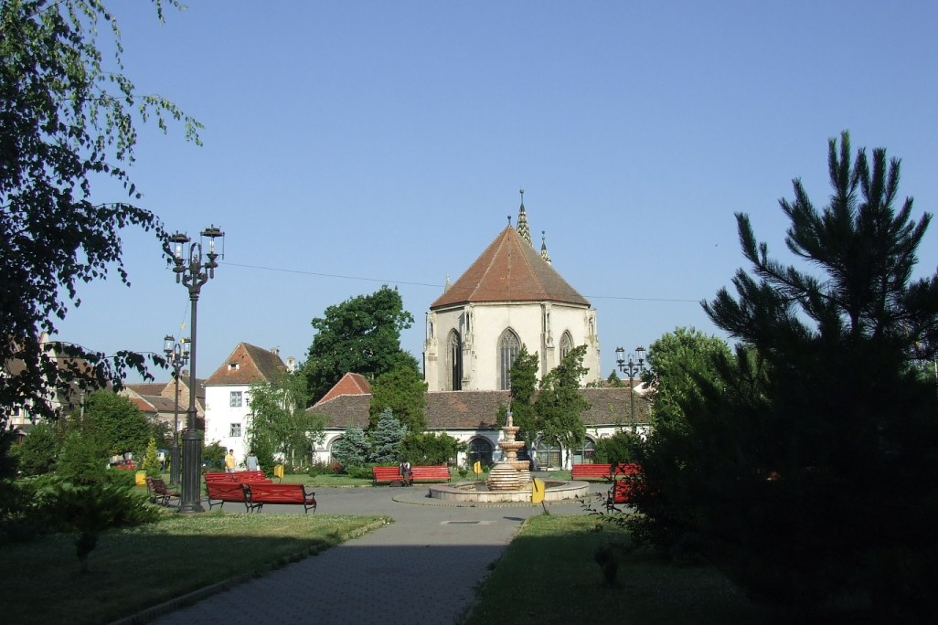 View from Sebeş, Alba County Romania